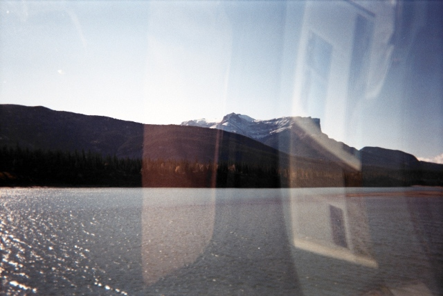 Jasper Lake and mountains across the shore as seen from the train. I took the photo myself in October 2011 from VIA Rail's "Canadian" passenger train as it headed west.